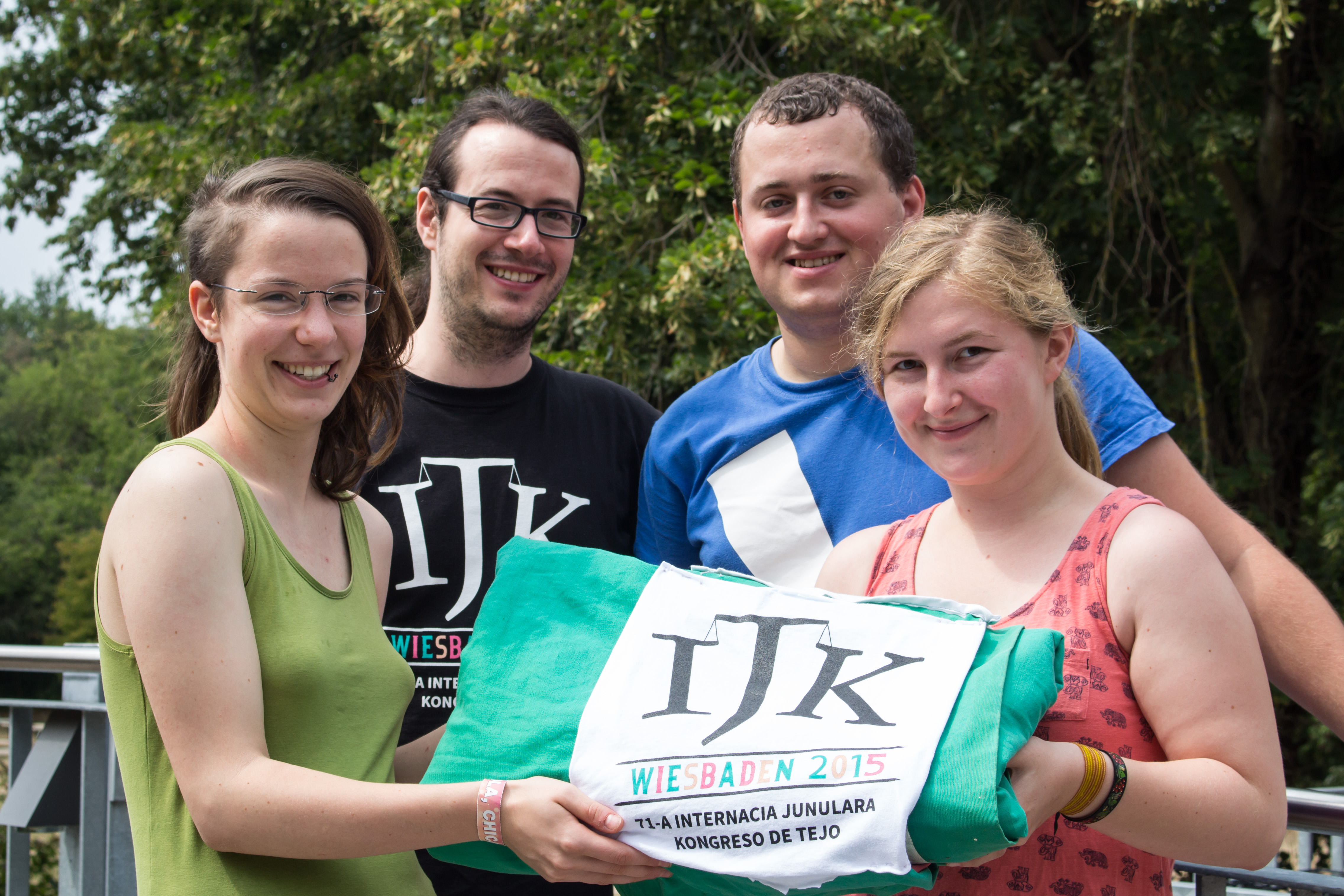 Annika Förster (on the foreground, left), the organizator of the 71st International Youth Congress of Esperanto in Wiesbaden (Germany) gives the Congress Flag to Romualda Jeziorowska (on the foreground, right).